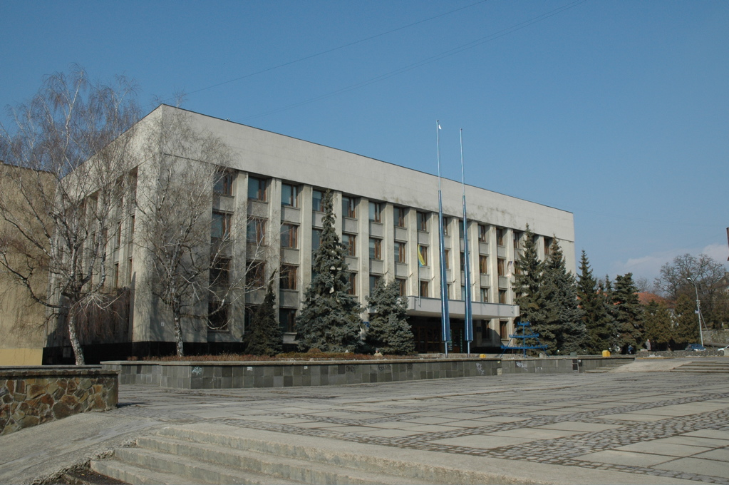 The City Hall of Uzhhorod, Ukraine